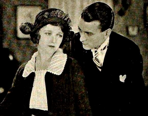 Still from the American comedy film His Official Fiancée (1919) with Vivian Martin and Hugh Huntley, on page 28 of the October 1919 Film Fun.